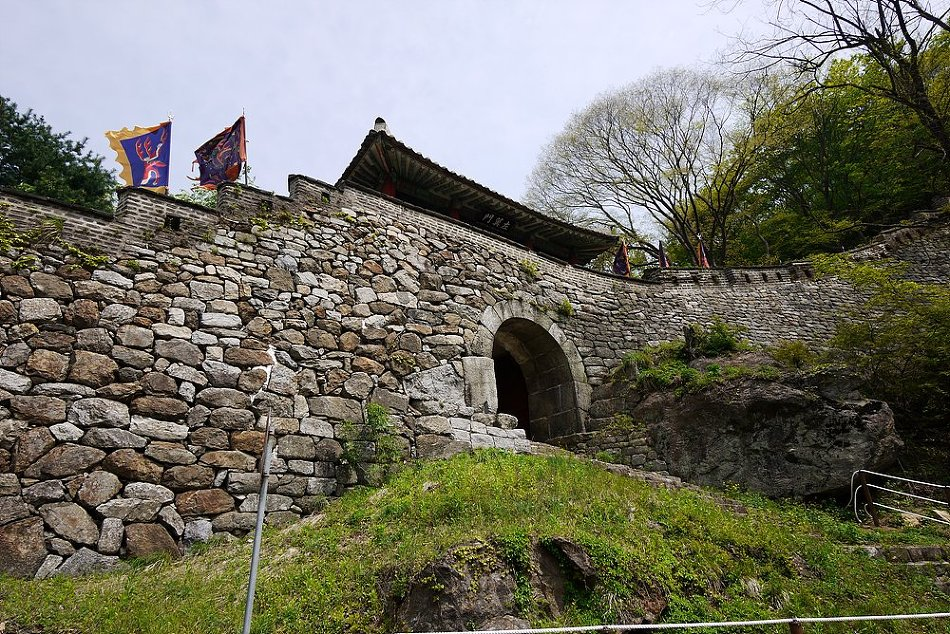 The east gate of Namhansanseong, an ancient fortress at Mt.Namhan